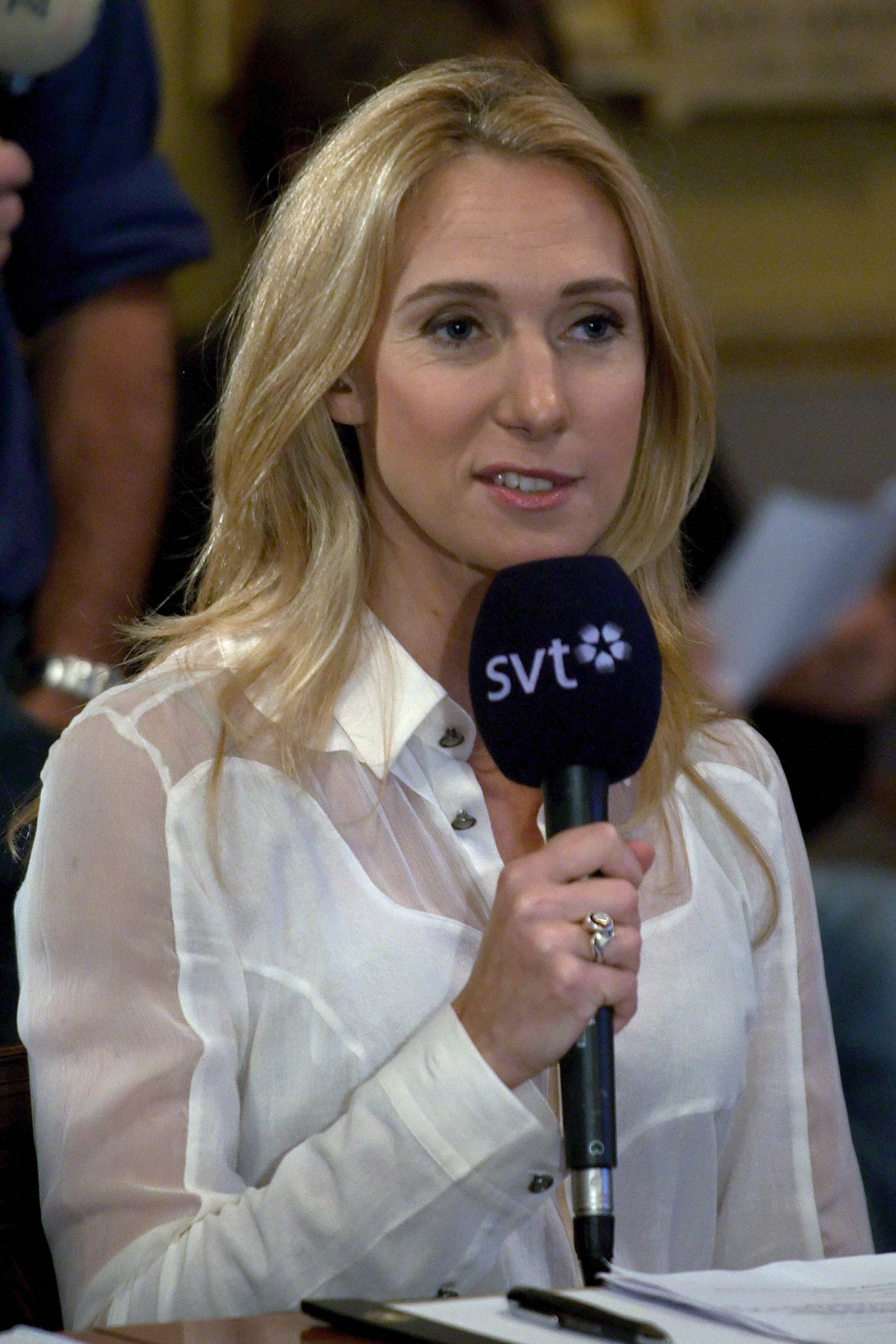 Announcement of the Nobelprize in Physics 2011